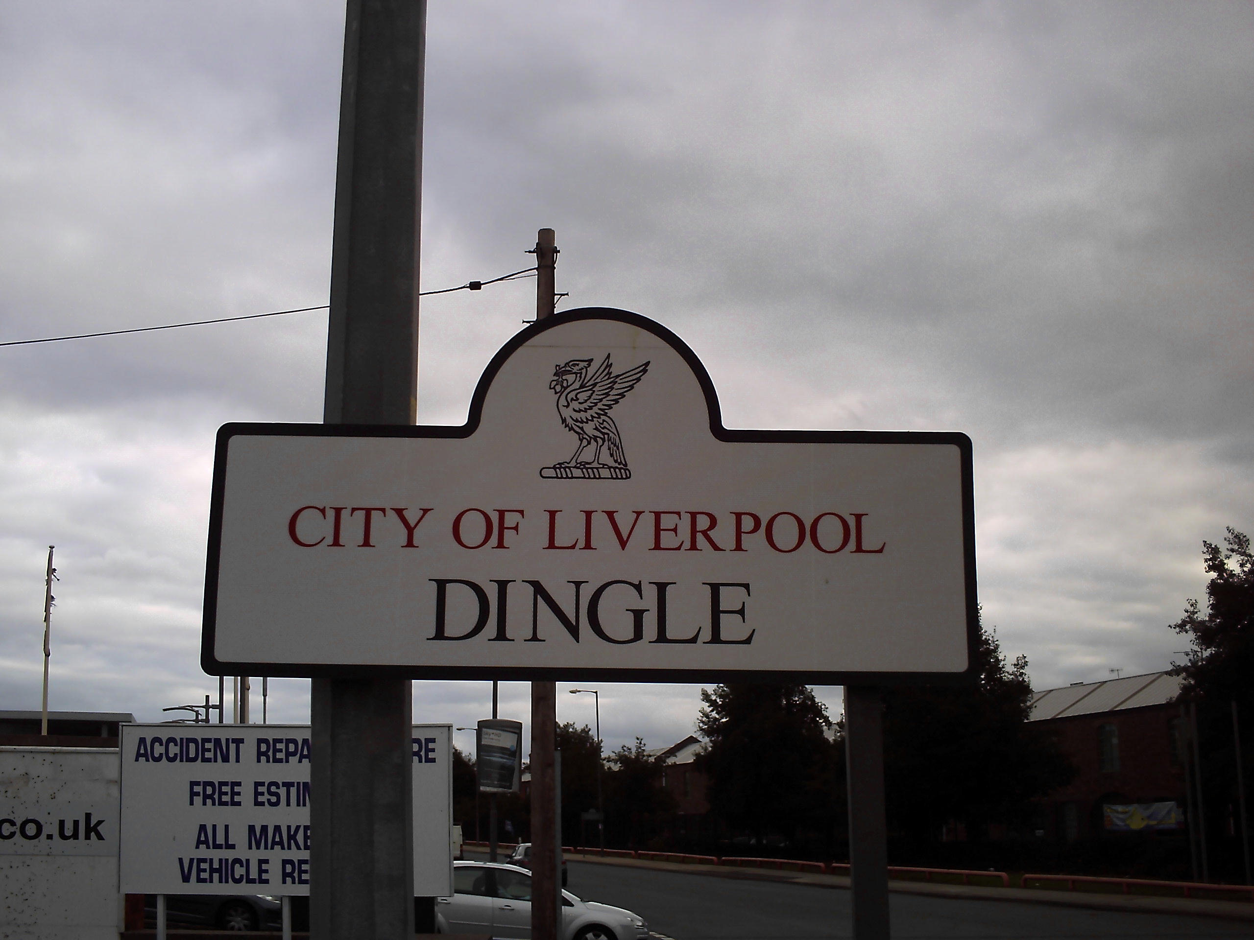 Sign for Dingle district of Liverpool.